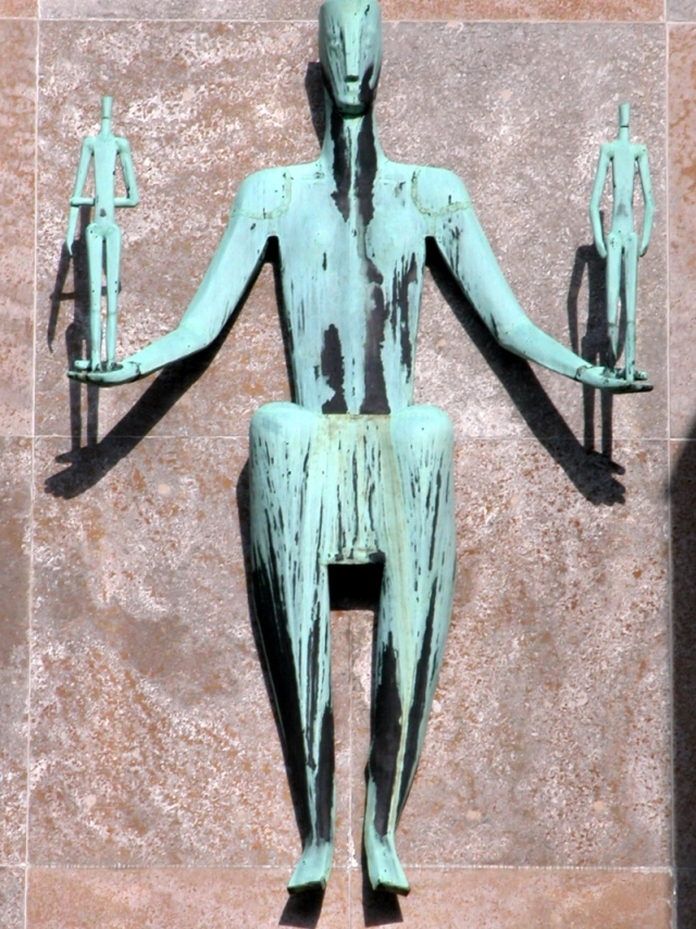 Brunswick, Germany: “Justitia” by Bodo Kampmann.